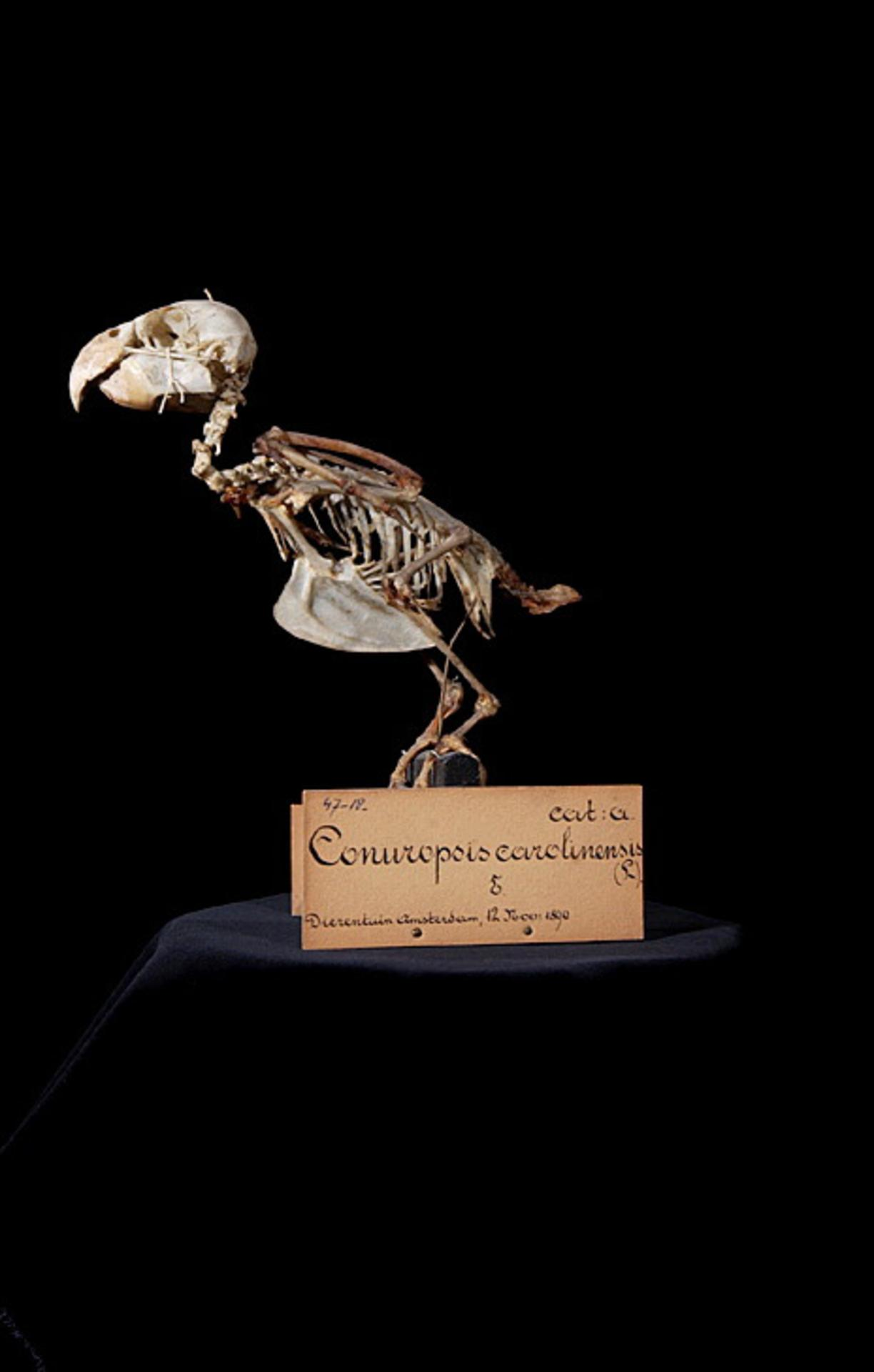 Conuropsis carolinensis subspecies